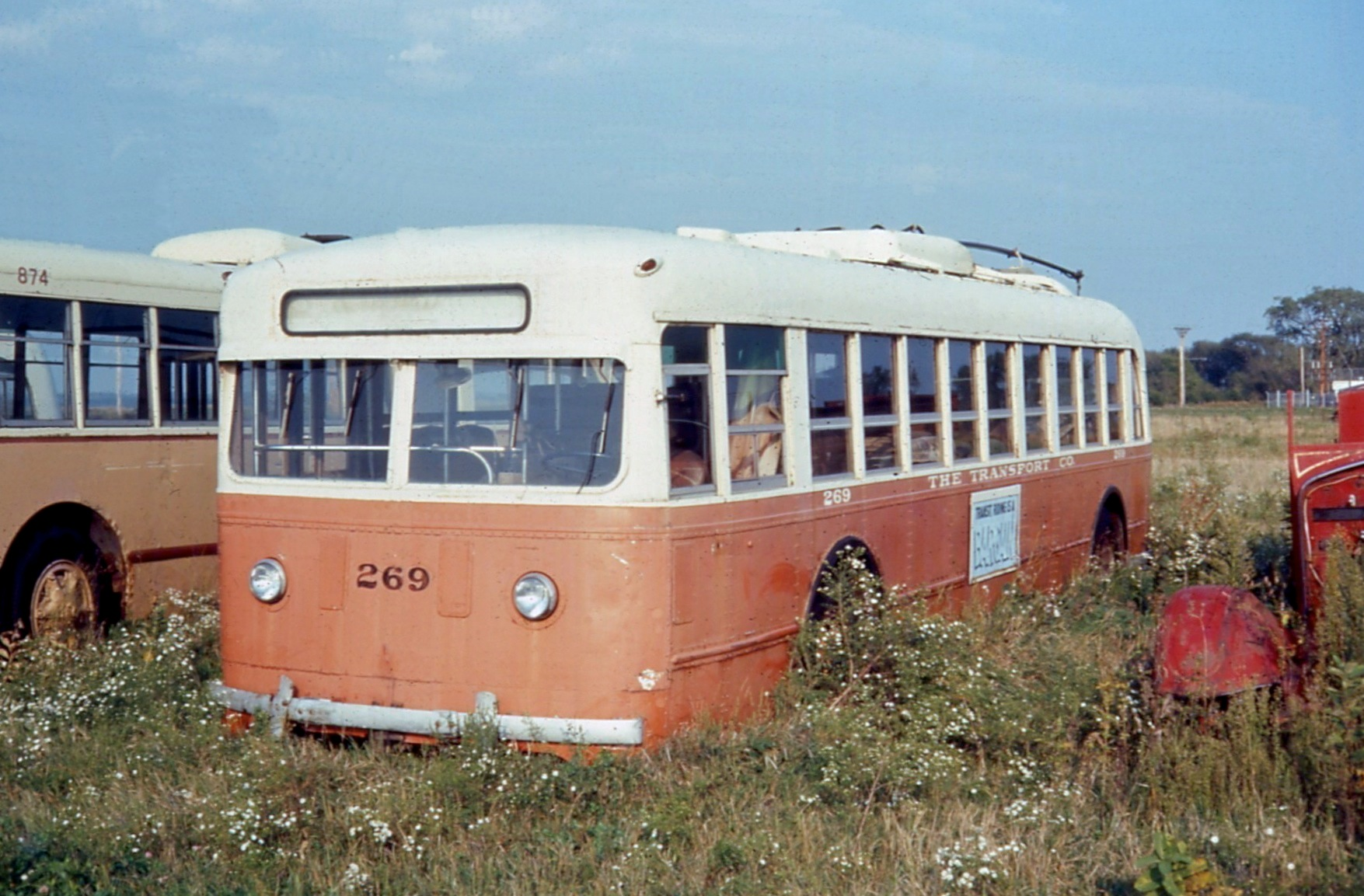 Milwaukee trolleybus 269, built in 1941 by the St. Louis Car Company, has been preserved at the Illinois Railway Museum. It was photographed there in 1968, and No. 269 is still in IRM's collection in 2011. Milwaukee's trolleybus system was operated (after 1952) by the Milwaukee & Suburban Transport Corporation (operating as "The Transport Company"), predecessor to the Milwaukee County Transit System, and closed in 1965.